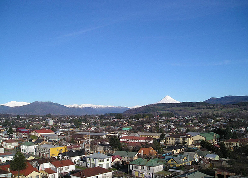 Picture captured from the broadcasting antenna of Radio Genesis FM of Curacautin by Juan Gomez Sandoval.